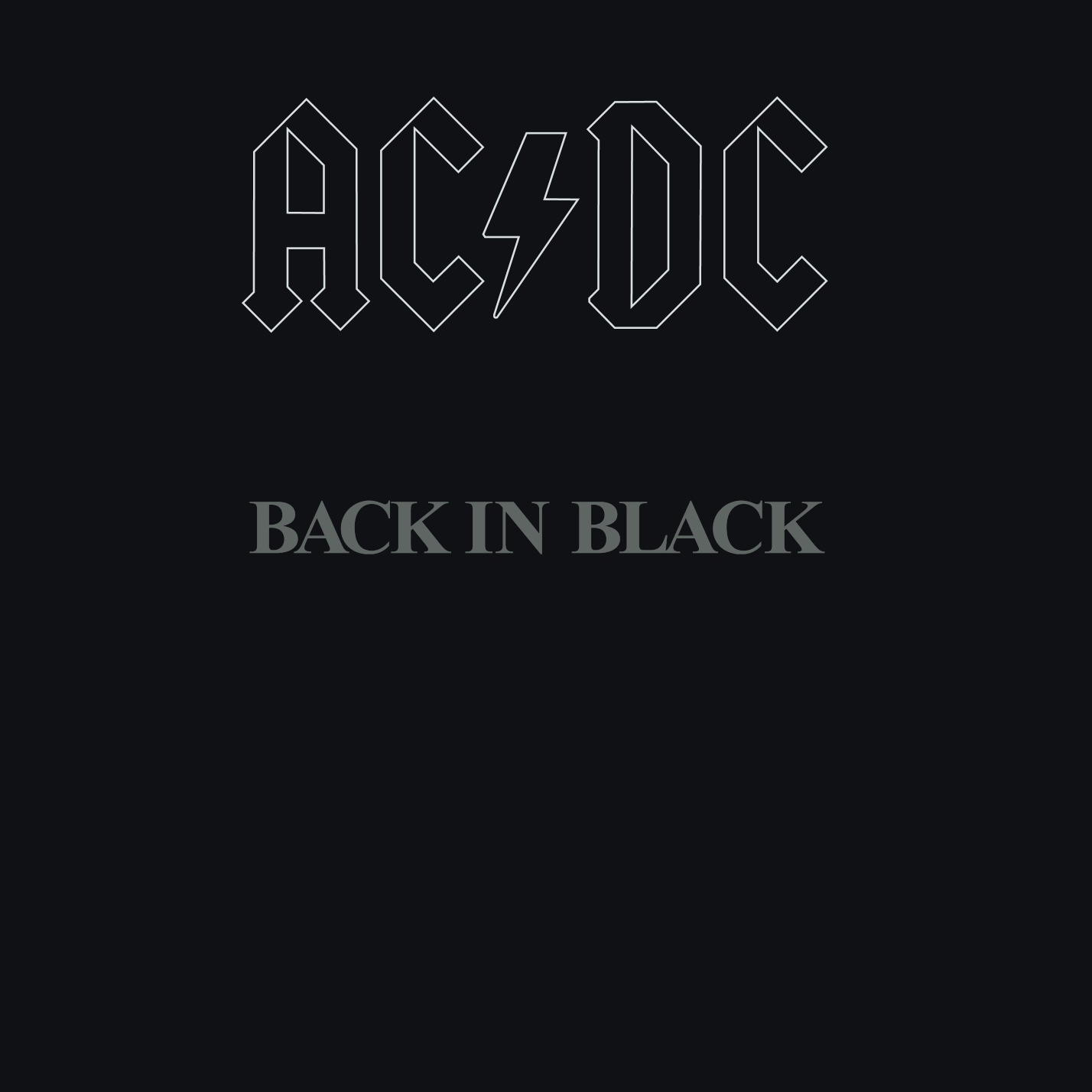 Cover for "Back in Black", an album recorded by Australian rock band AC/DC.